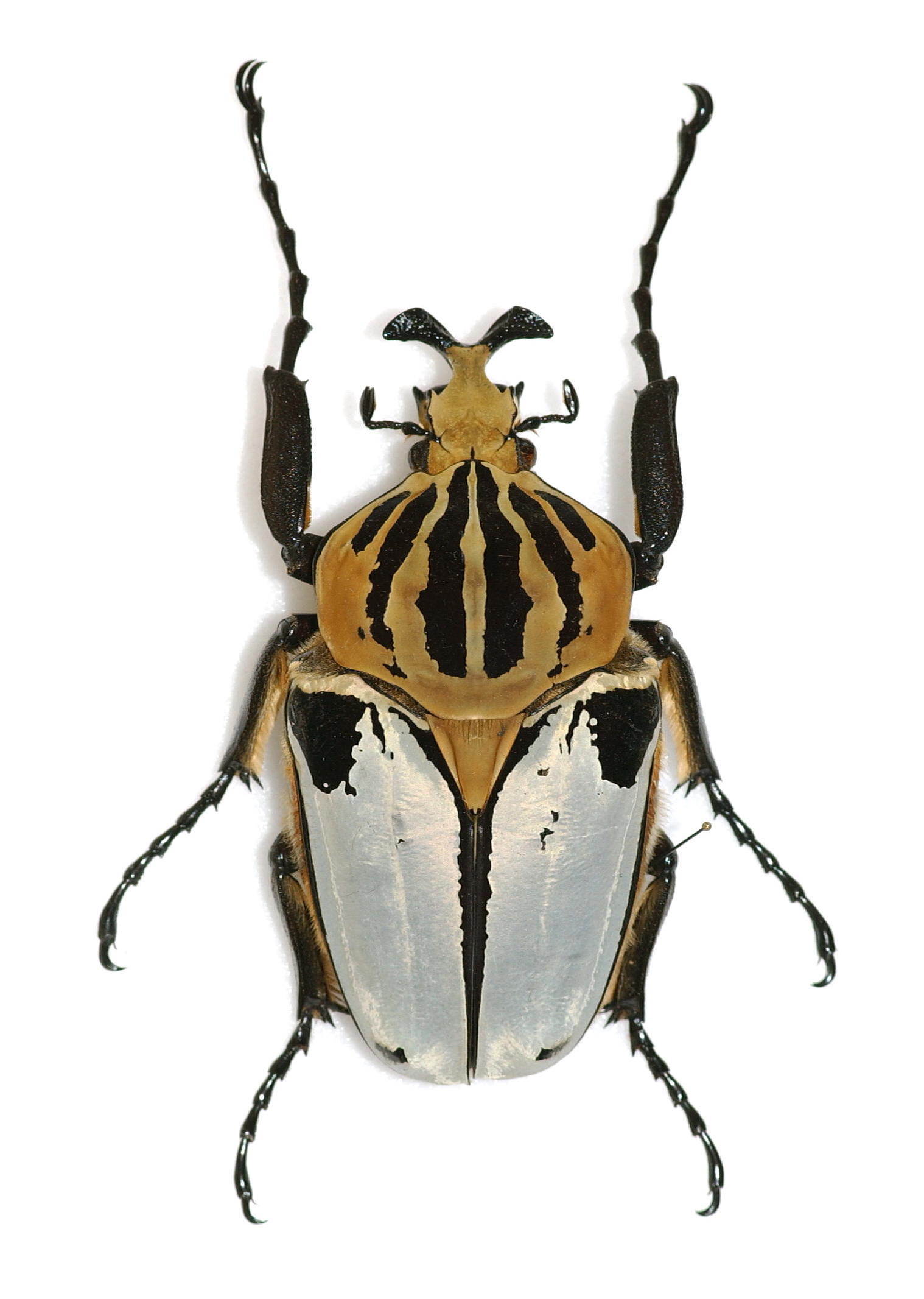 Goliathus Cacicus (male); large beetle of the family of Scarabaeidae and subfamily Cetoniinae. . This is one of the largest beetles in the world. He lives in the western forests of equatorial Africa. This specimen comes from the naturalists collections of Lille Natural History Museum.